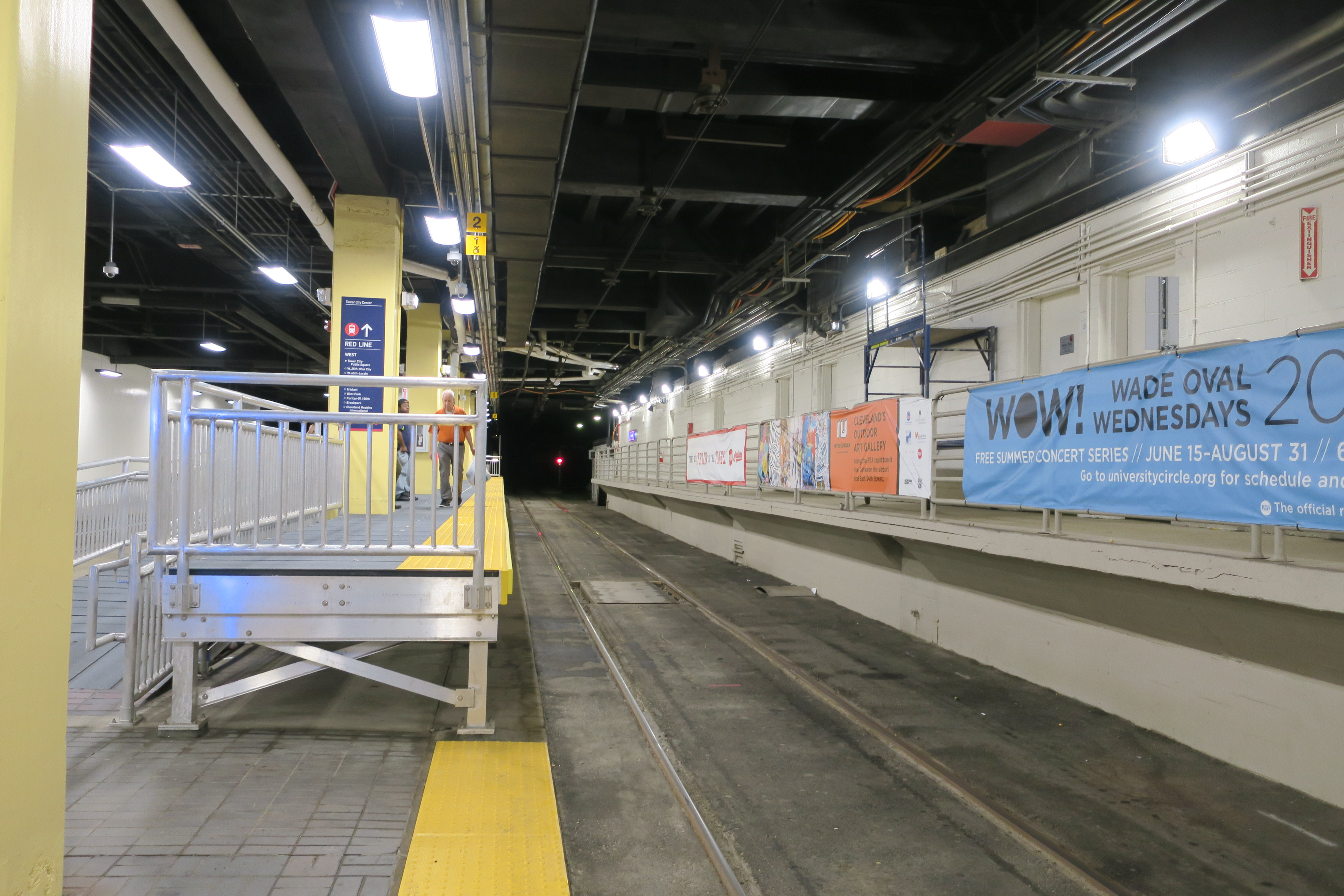 The temporary westbound Red and Waterfront line platforms at the Tower City station.